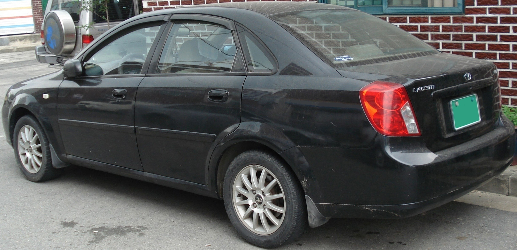 Daewoo Lacetti